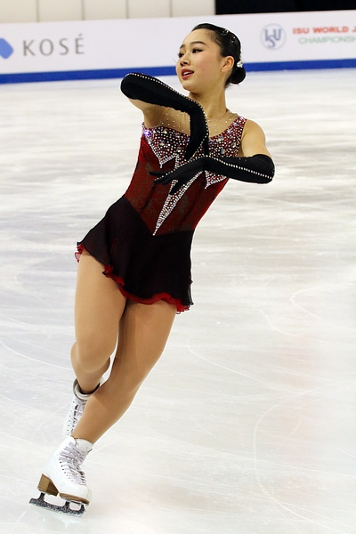 Photos – Junior World Championships 2016 – Ladies (Wakaba HIGUCHI JPN – Bronze Medal)